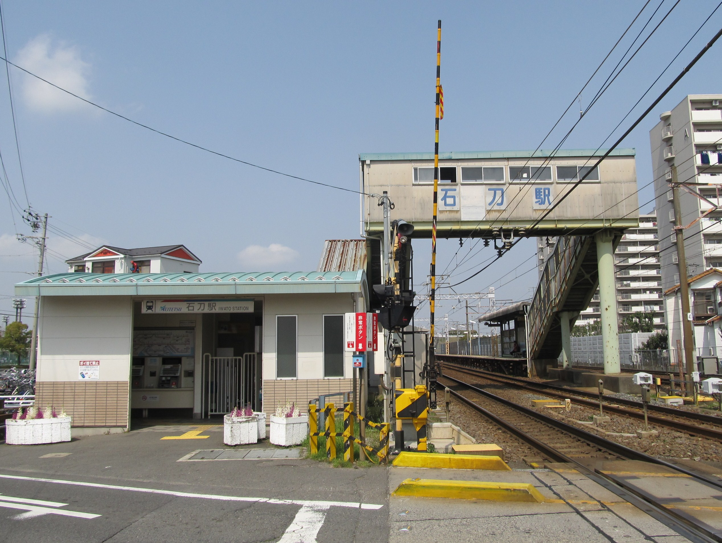 Nagoya Railroad Nagoya Main Line Iwato Station Building.